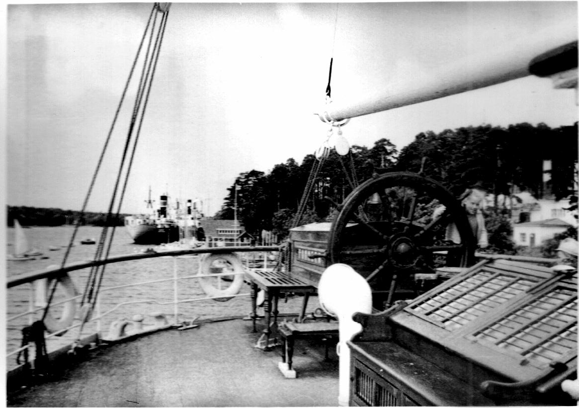 Poop deck of the Pommern